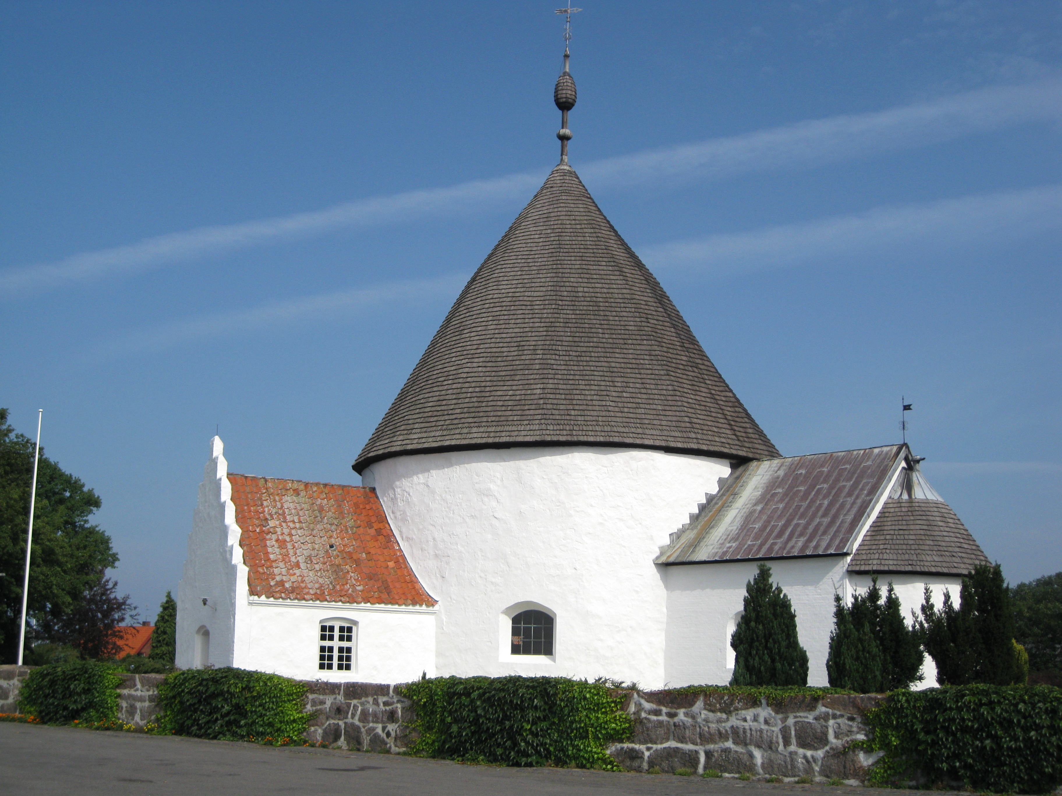 The church "Ny Kirke" in the small town "Nyker". The town is located on the island Bornholm in east Denmark.